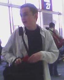 Kevin Covais at the John F. Kennedy International Airport, on his way to The Ellen DeGeneres Show.